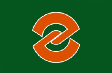 Flag of Koga Fukuoka